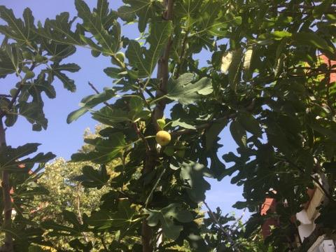 Fruit of figs